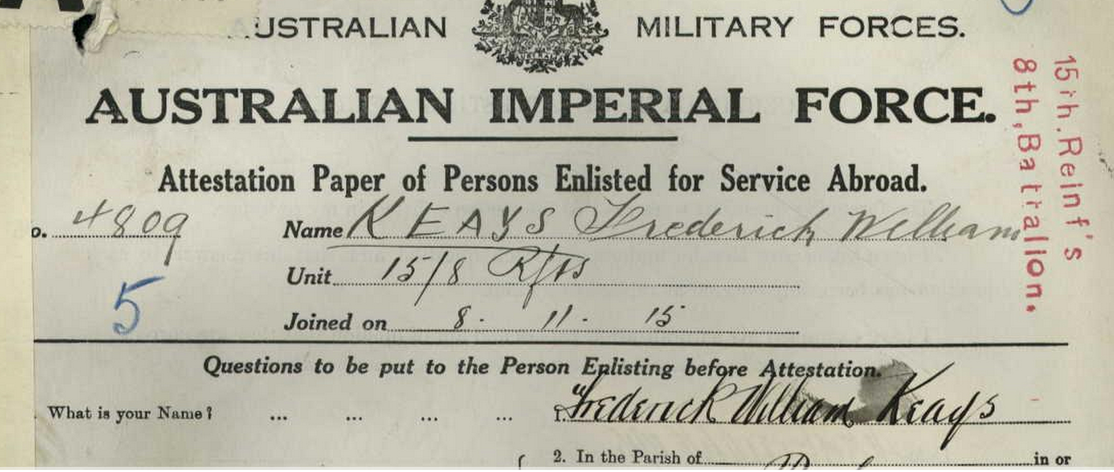 1915 copy of Freds Enlistment Record for WW1